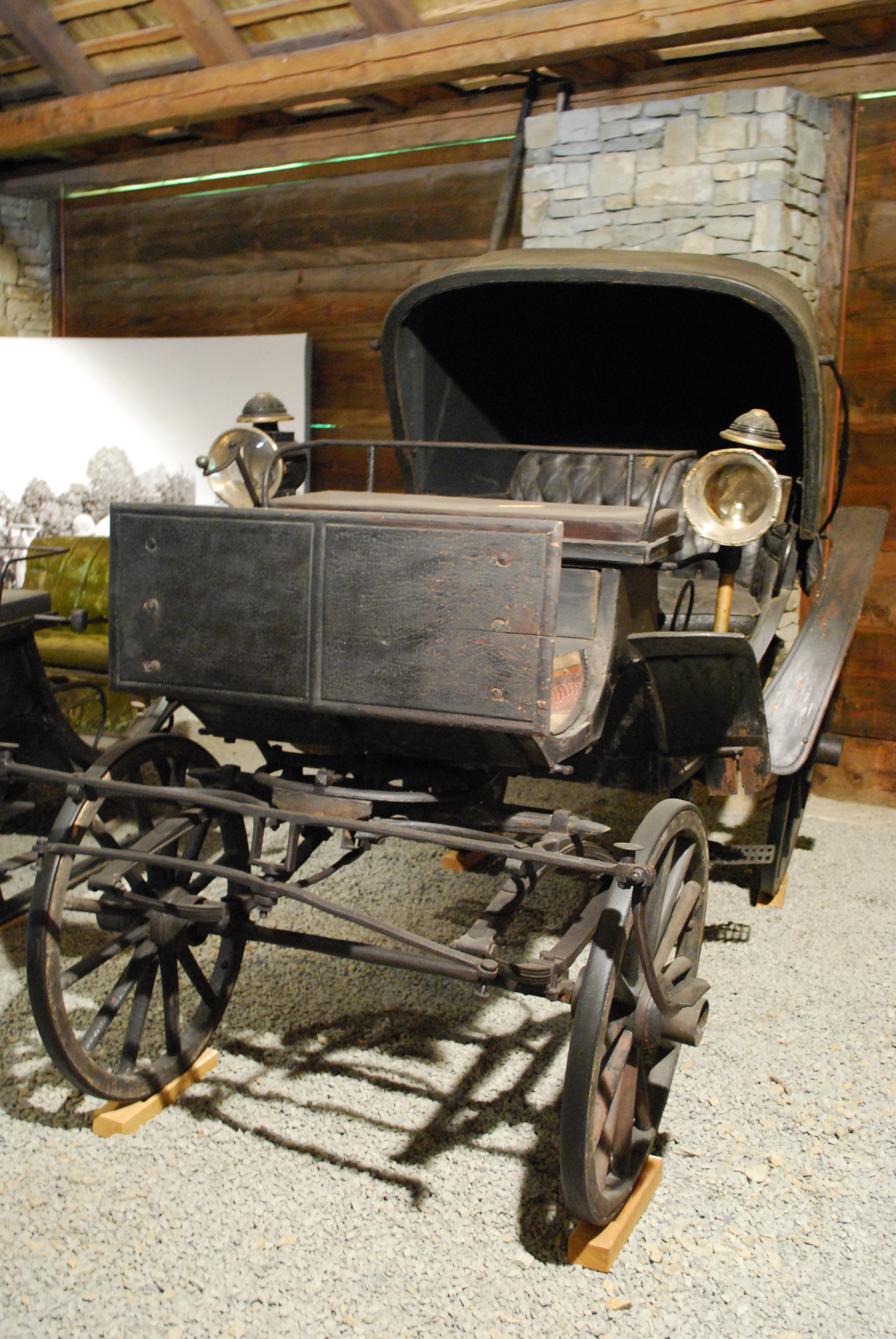 Mylord type of coach on display in Wallachian Open Air Museum in Rožnov pod Radhoštěm